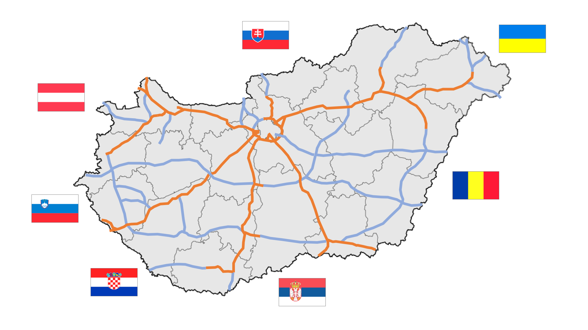 Motorways in Hungary (orange: in use, blue: planned or under construction)